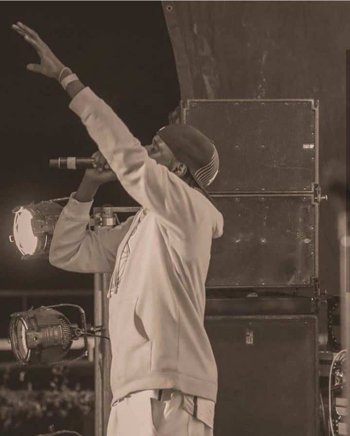 mc supa marcus at a konshens concert in kenya on september 8th 2019